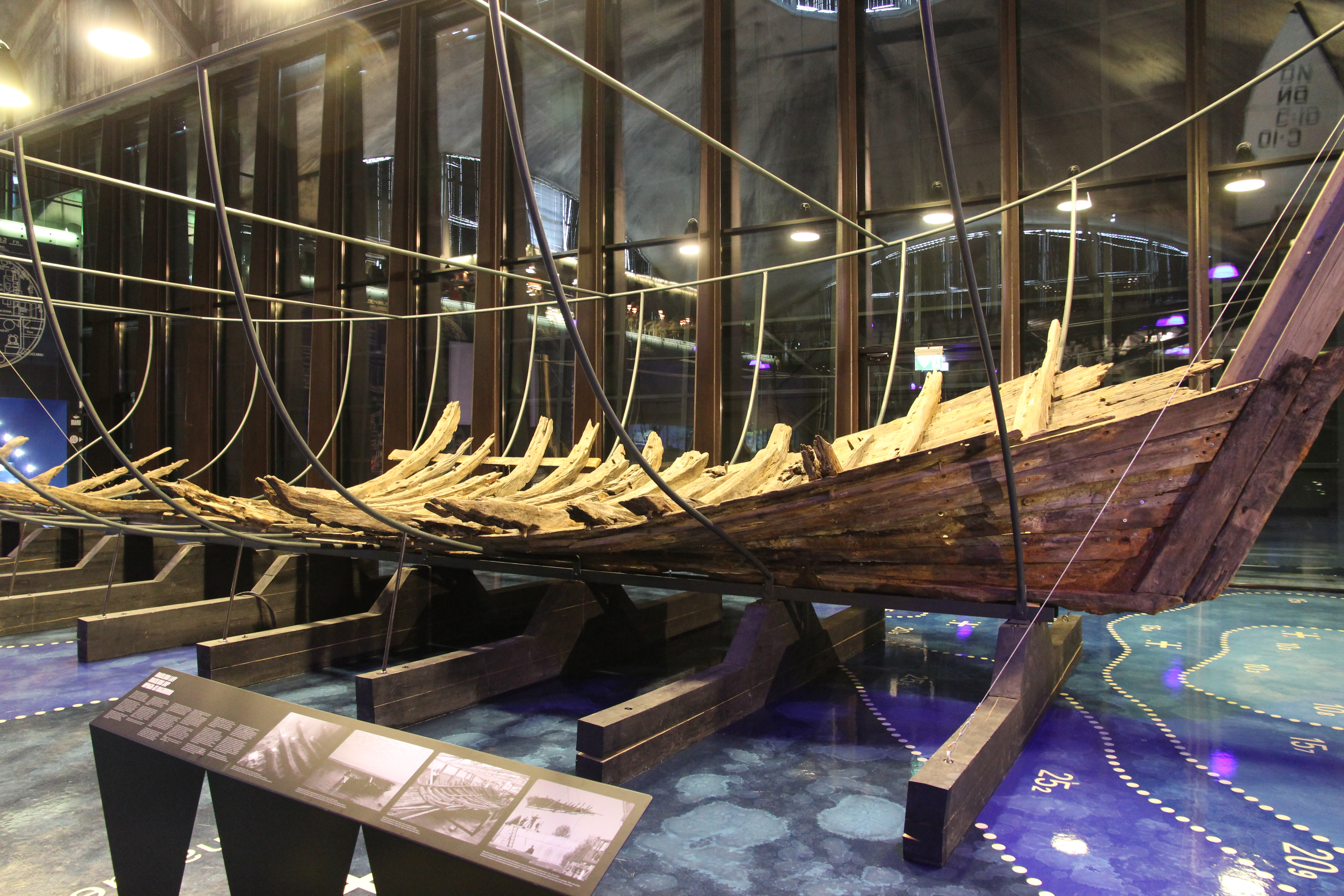 Maasilinna shipwreck from circa 1550 discovered in 1985 in Lennusadam maritime museum.